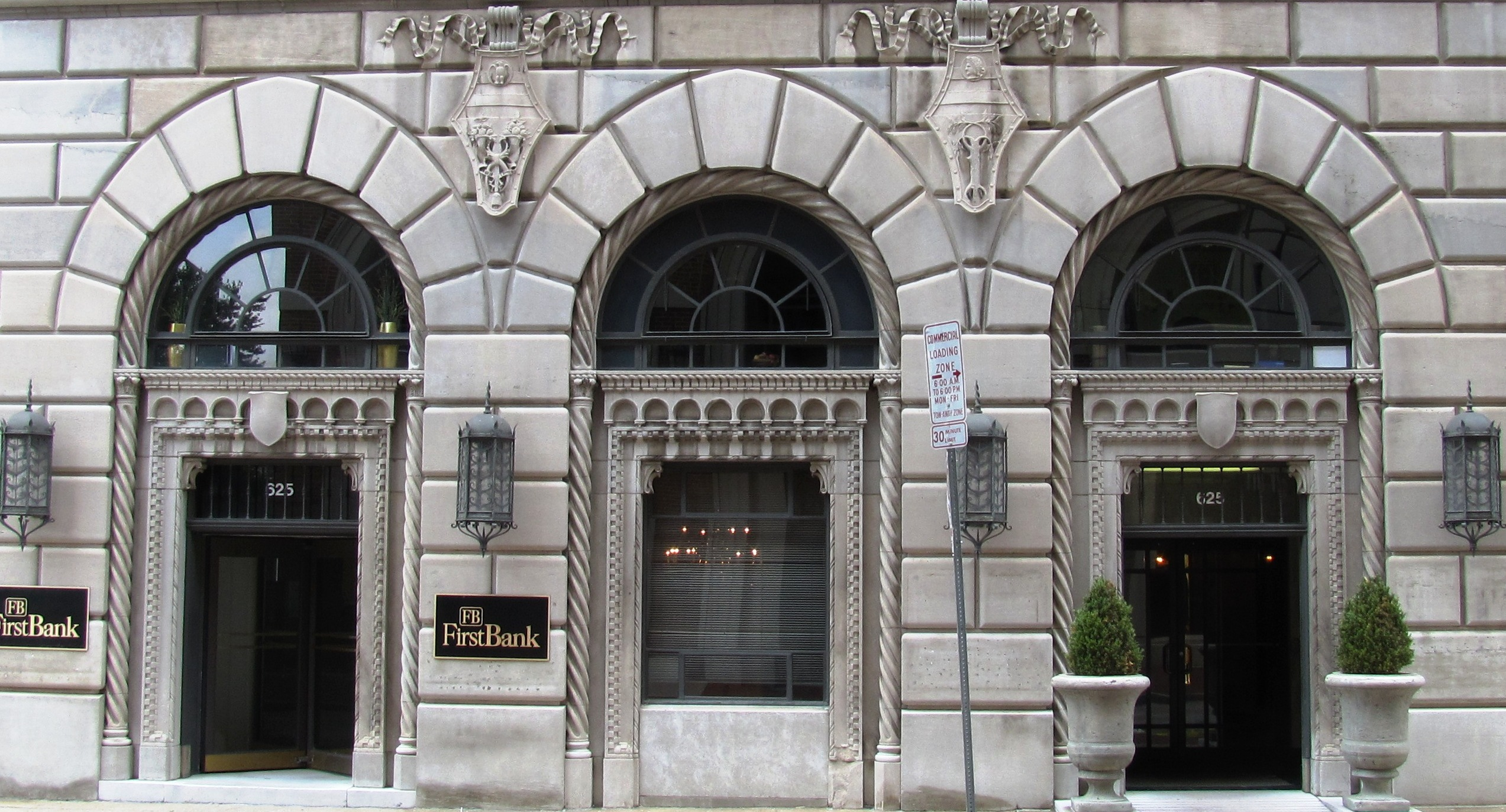 The Market Street facade of the General Building (First Bank Building) in Knoxville, Tennessee, USA.